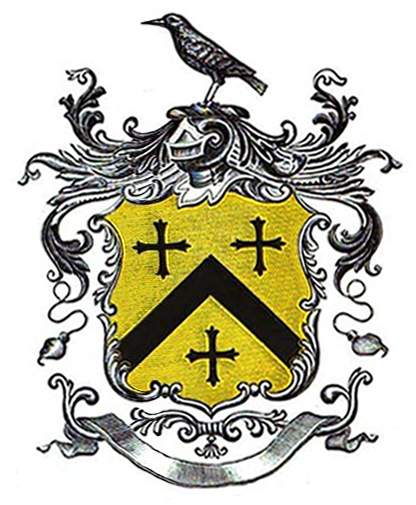 Stearns family - Coat of arms